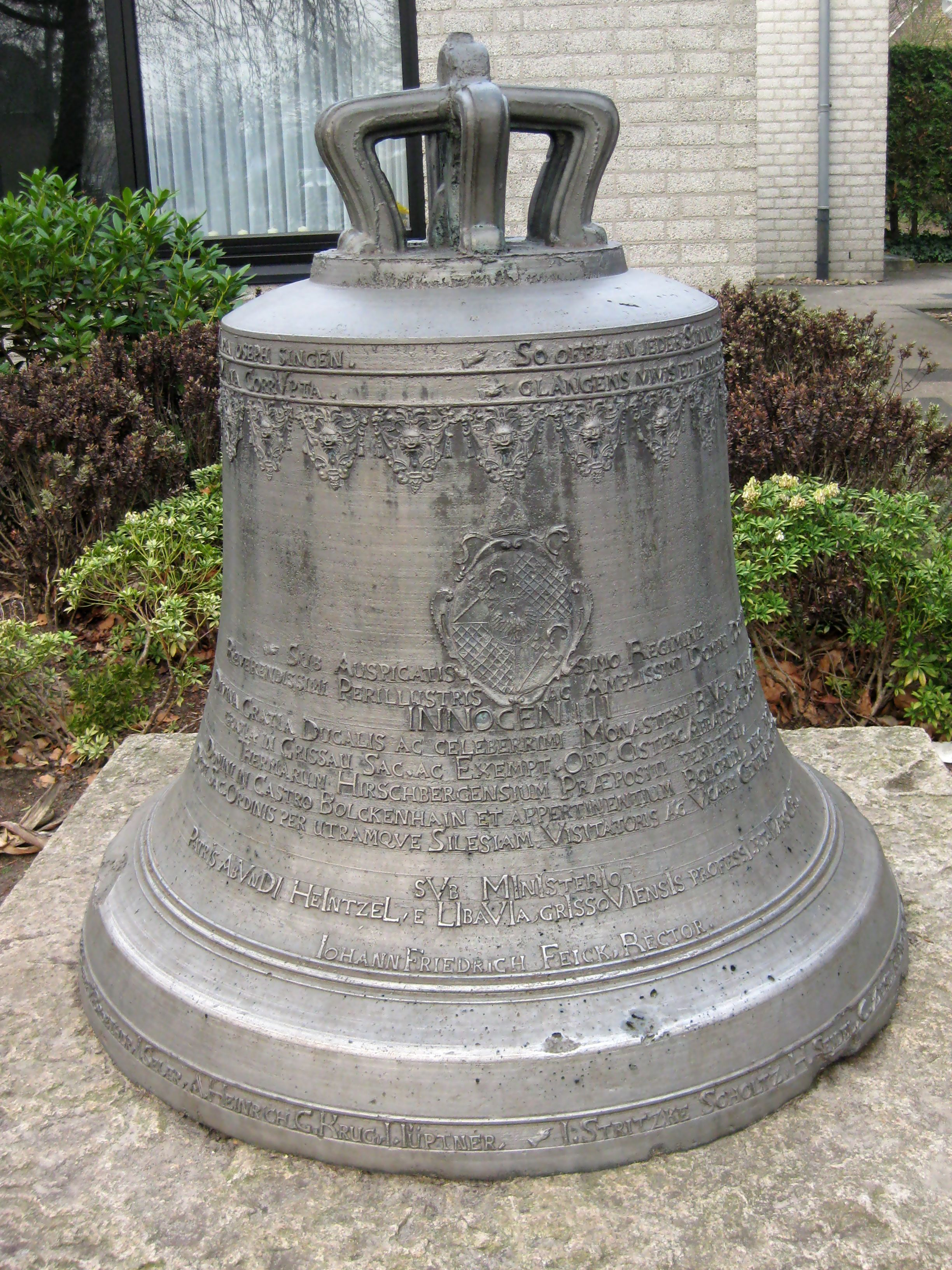 bell display at catholic parish church St. Konrad in Gütersloh-Spexard